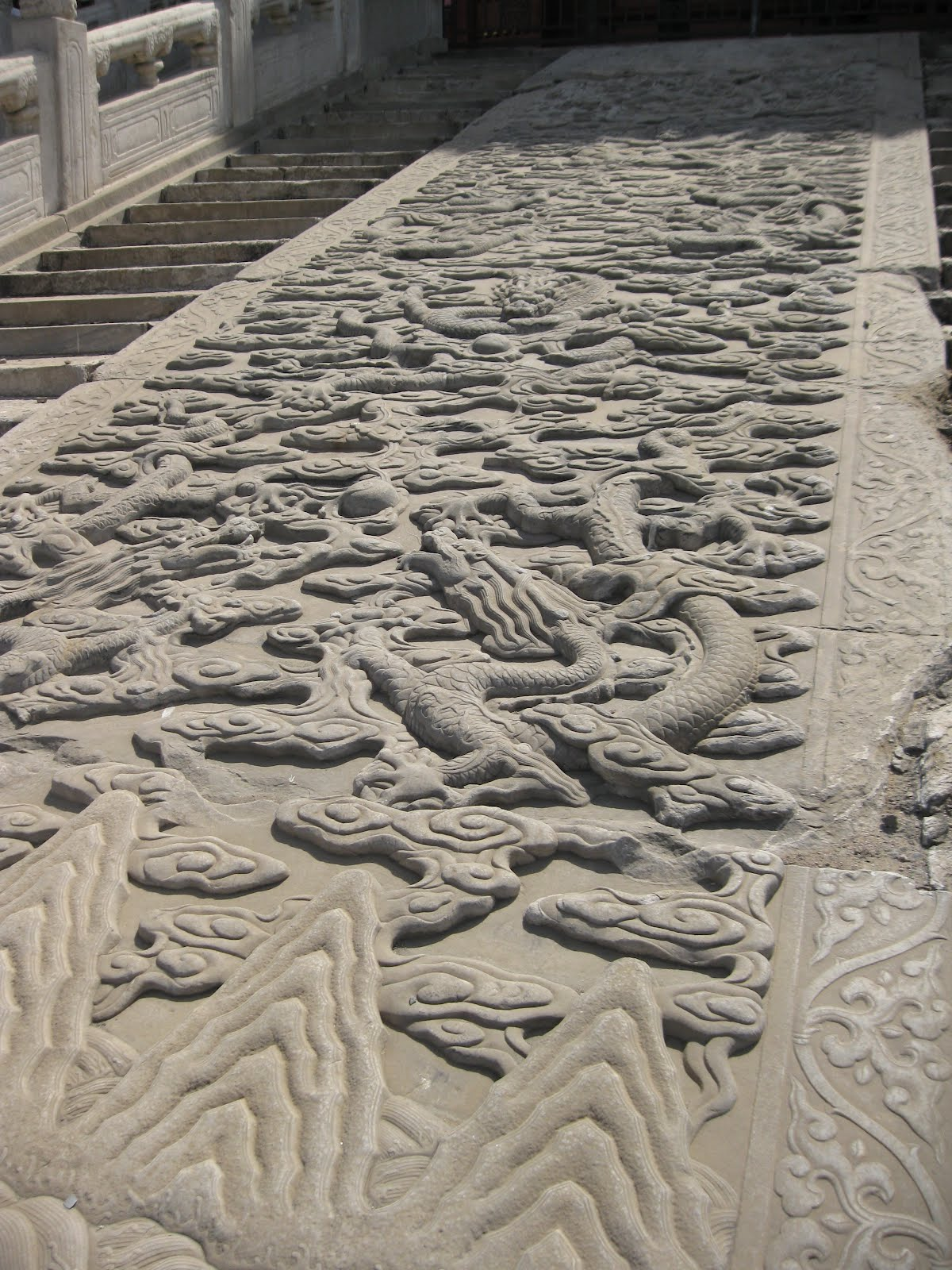 Forbidden City ovedc (2).JPG